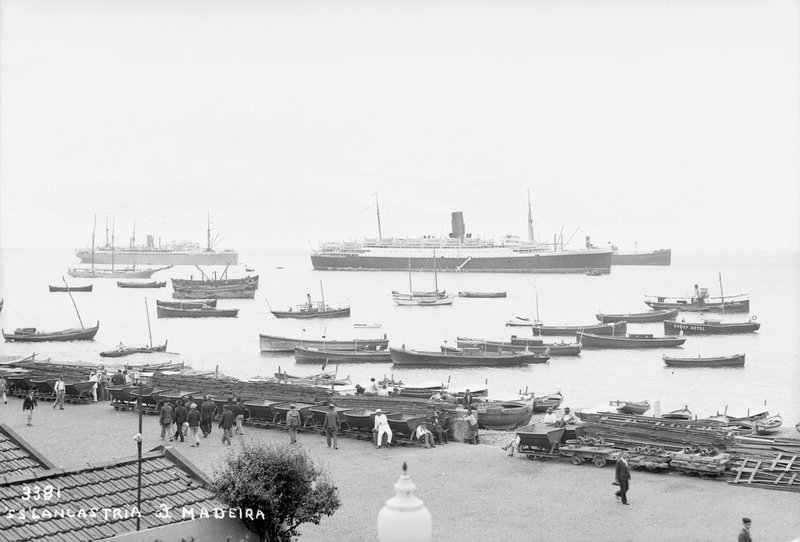 The 'Lancastria' at Funchal, Madeira A tranquil scene in Funchal Harbour. Launched in 1922 as the 'Tyrrhenia' for the Anchor Line, a subsidiary of Cunard, she made her maiden voyage on 19 June 1922. Just two years later she was refitted and renamed 'Lancastria'. From 1932 she was used exclusively for cruising until April 1940 when she was requisitioned by the British government as a troopship. On 17 June 1940 she was sunk off St. Nazaire by German bombers, with very heavy loss of life.